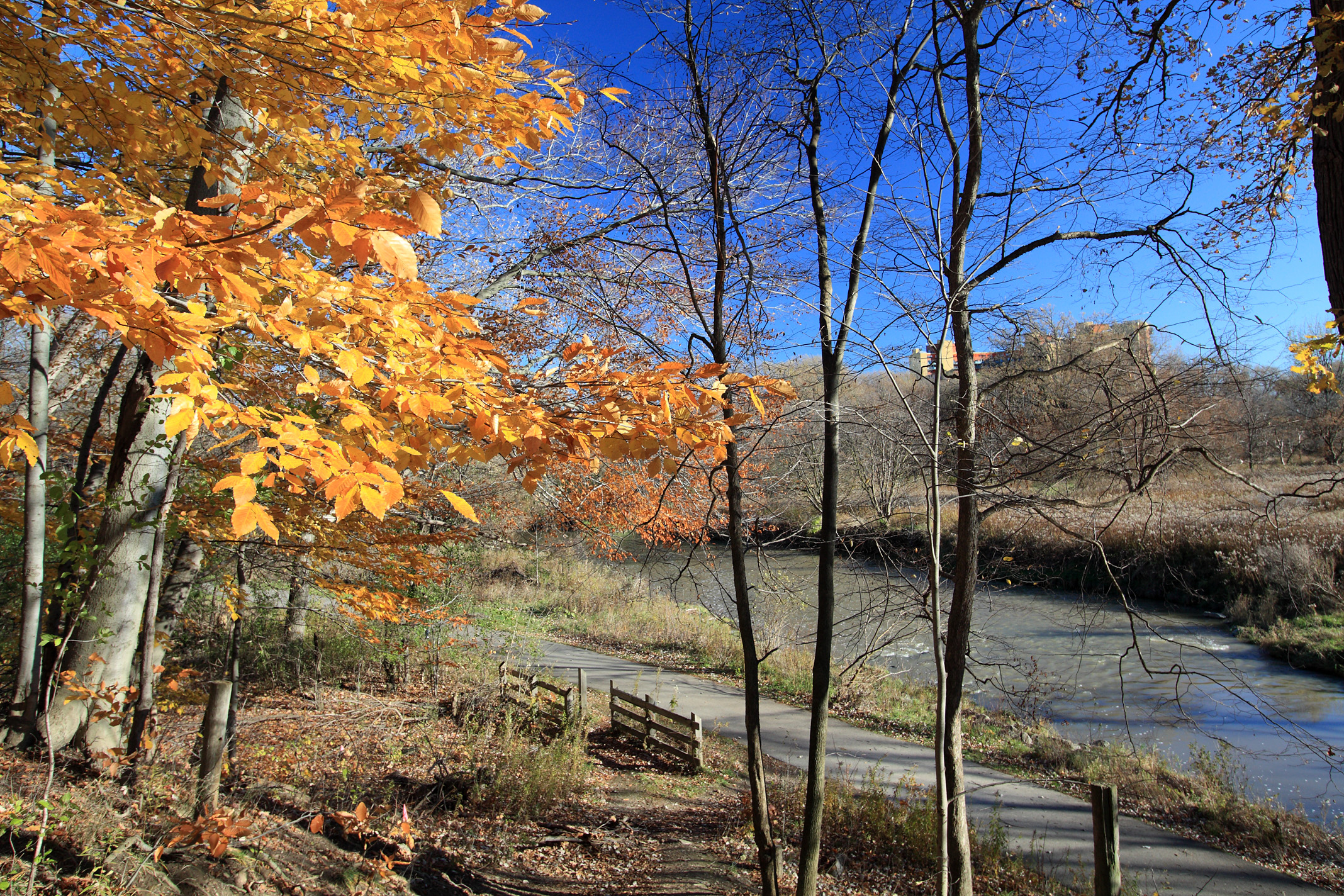 Humber Woods, Toronto